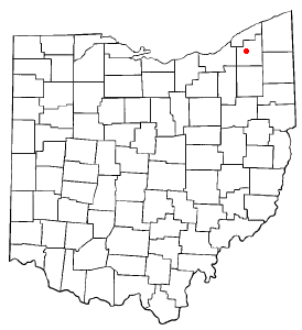 File modified 10/7/06 by KeithB 05:39, 7 October 2006 (UTC)